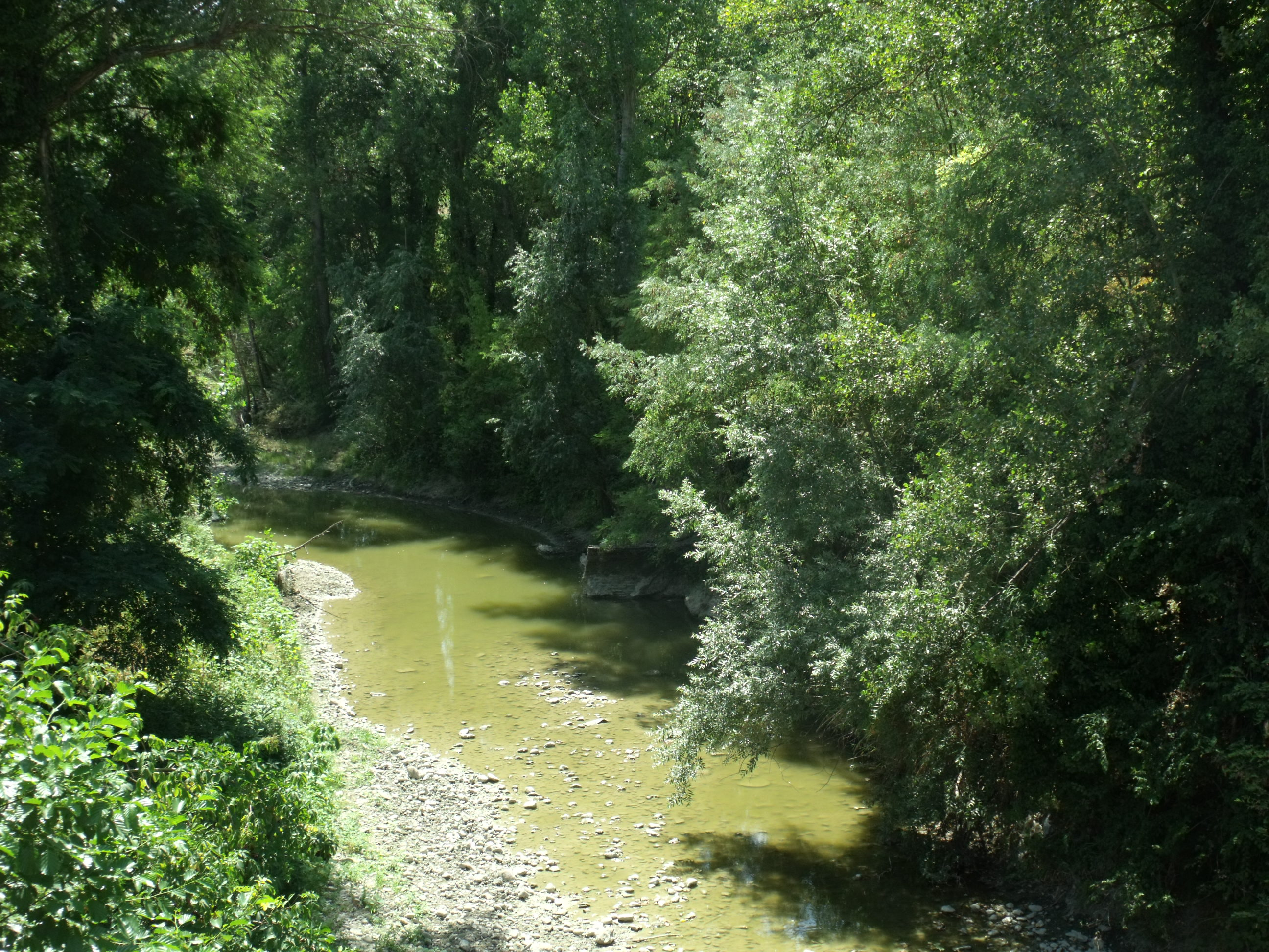 The Savena River near Ponticella (hamlet of San Lazzaro di Savena), Province of Bologna, Italy